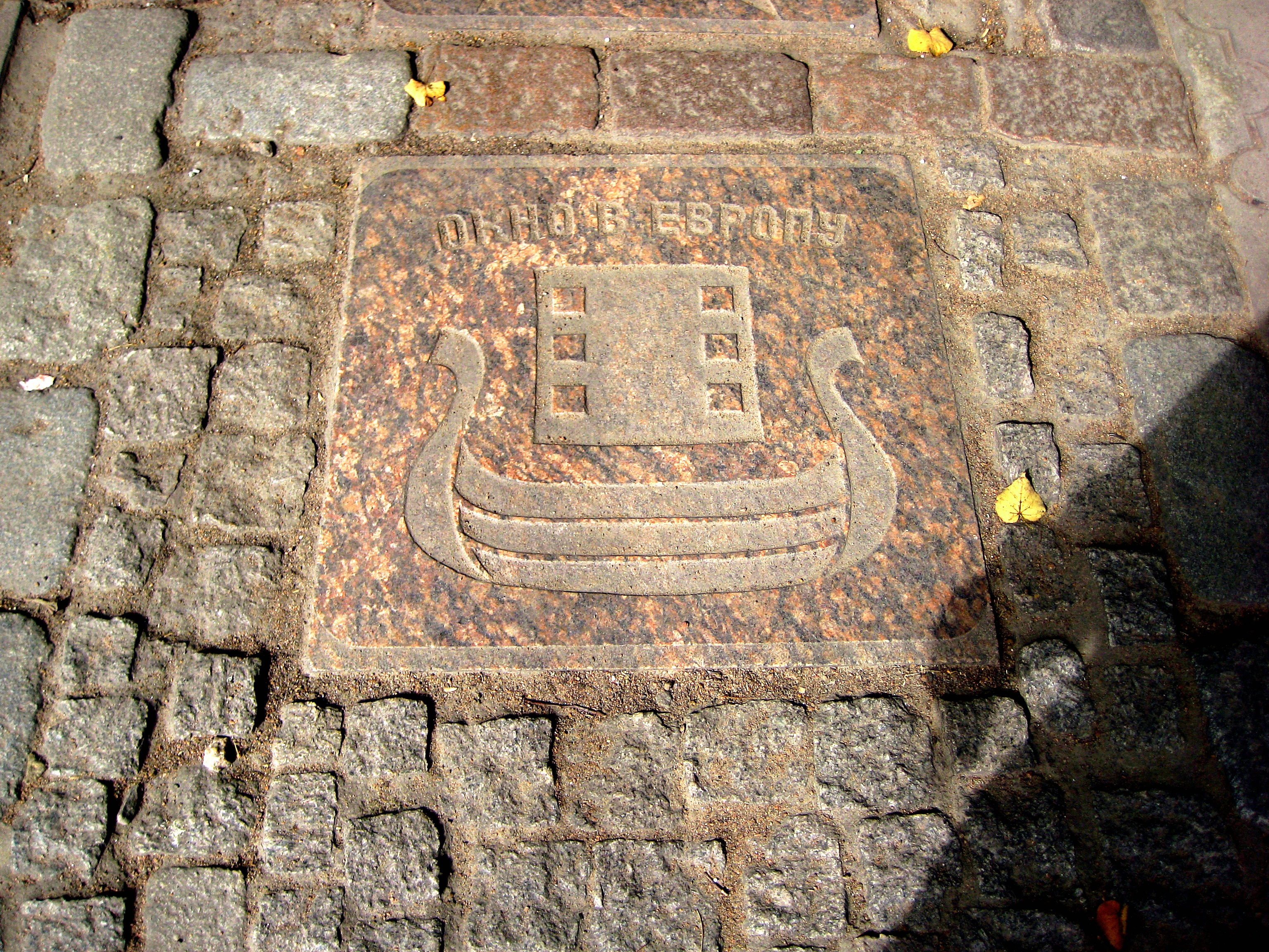 Vyborg. Krepostnaya street. Walk of Fame actors. Plate with the emblem of the film festival in Vyborg "Window to Europe"